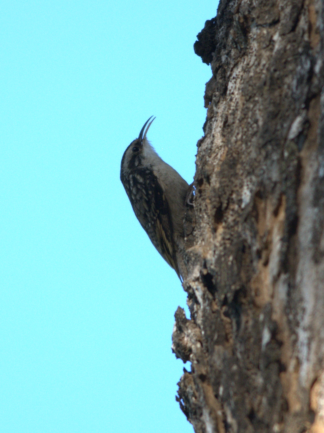 Bar-tailed Treecreeper Certhia himalayana. Photo taken in Mizoram by Dr. Raju Kasambe